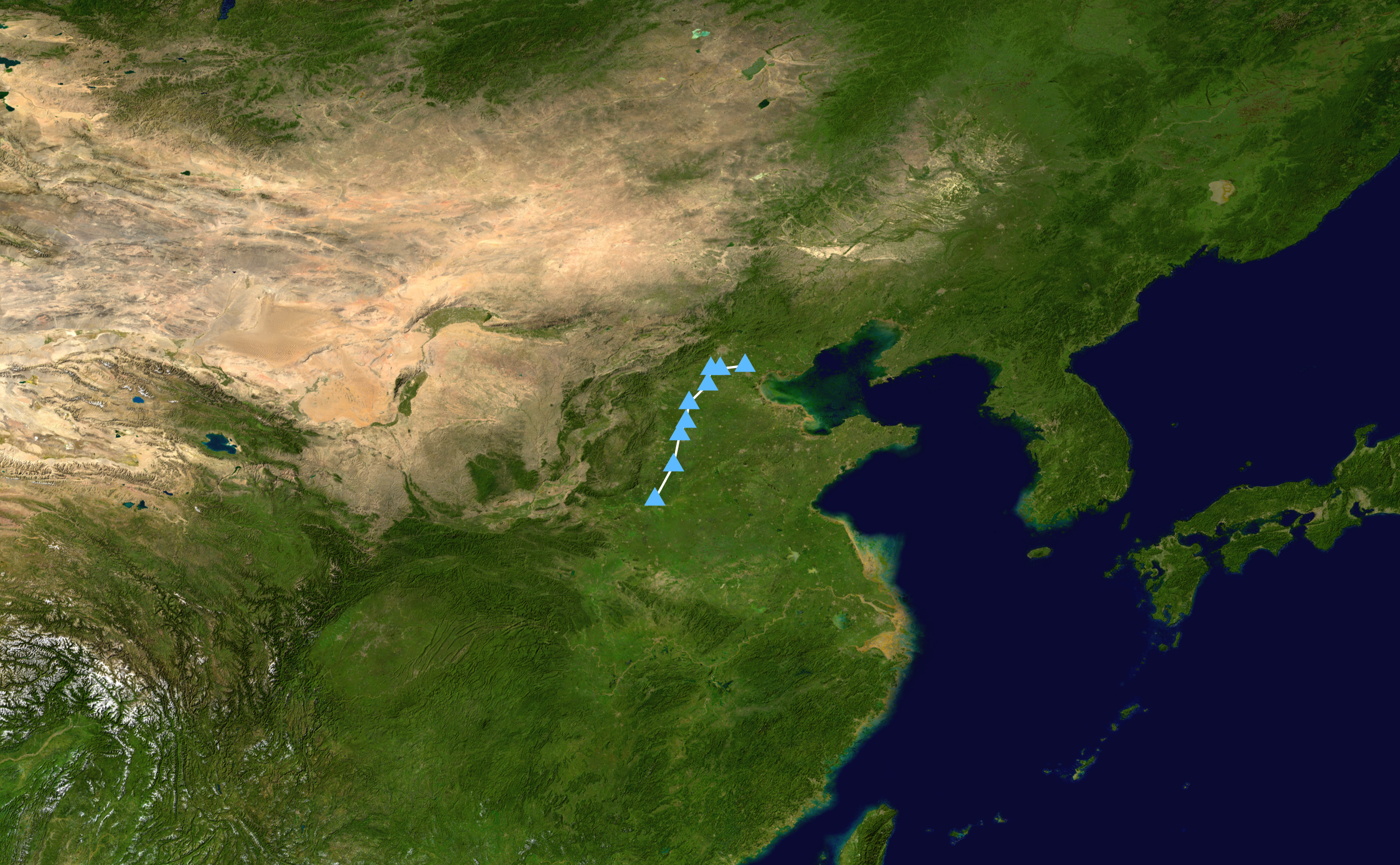 Track map of July 2016 North China cyclone of the East Asian-Northwest Pacific cyclones. The points show the location of the storm at 6-hour intervals. The colour represents the storm's maximum sustained wind speeds as classified in the Saffir–Simpson scale (see below), and the shape of the data points represent the nature of the storm, according to the legend below. Saffir–Simpson scale Tropical depression≤38 mph≤62 km/h Category 3111–129 mph178–208 km/h Tropical storm39–73 mph63–118 km/h Category 4130–156 mph209–251 km/h Category 174–95 mph119–153 km/h Category 5≥157 mph≥252 km/h Category 296–110 mph154–177 km/h Unknown Storm typeTropical cycloneSubtropical cycloneExtratropical cyclone / Remnant low / Tropical disturbance